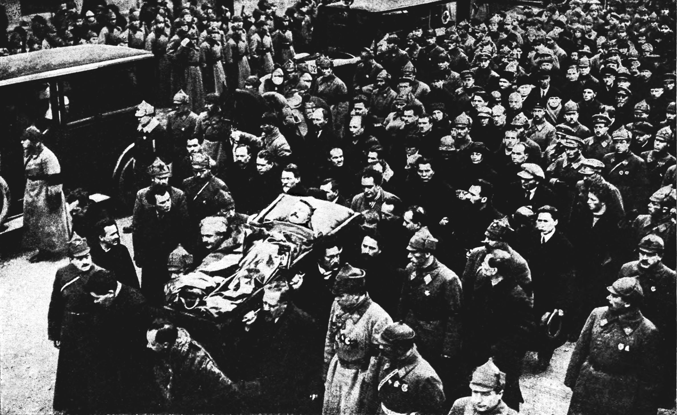 Identified on the photo please see annotations: Alexei Rykov, Chairman of the Council of People's Commissars (Prime Minister). Lev Kamenev, Deputy Chairman of the Council of People's Commissars (Deputy Prime Minister). Grigory Zinoviev, Chairman of the Comintern's Executive Committee. Mikhail Kalinin, Chairman of the Central Executive Committee of the All-Russian Congress of Soviets. Avel Enukidze, Secretary of the Central Executive Committee of the Soviet Union. Valerian Kuybyshev, First Deputy Chairman of the Council of People's Commissars of the Soviet Union. Yemelyan Yaroslavsky, founder of the League of Militant Atheists. Józef Unszlicht, Deputy People's Commissar on Military and Naval Affairs. Klim Voroshilov, Commander of Moscow Military District. Semyon Budyonny, Head of Cavalry Red Army. Mikhail Tukhachevsky, Deputy People's Commissar on Military and Naval Affairs. Andrei Bubnov, Head of the Political Directorate of the Red Workers' and Peasants' Army. Nikolai Bukharin, Editor of Pravda. Mikhail Tomsky, Chairman of the Presidium of the All-Union Central Council of Trade Unions.